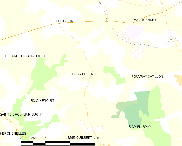 Map of French municipality Bosc-Édeline